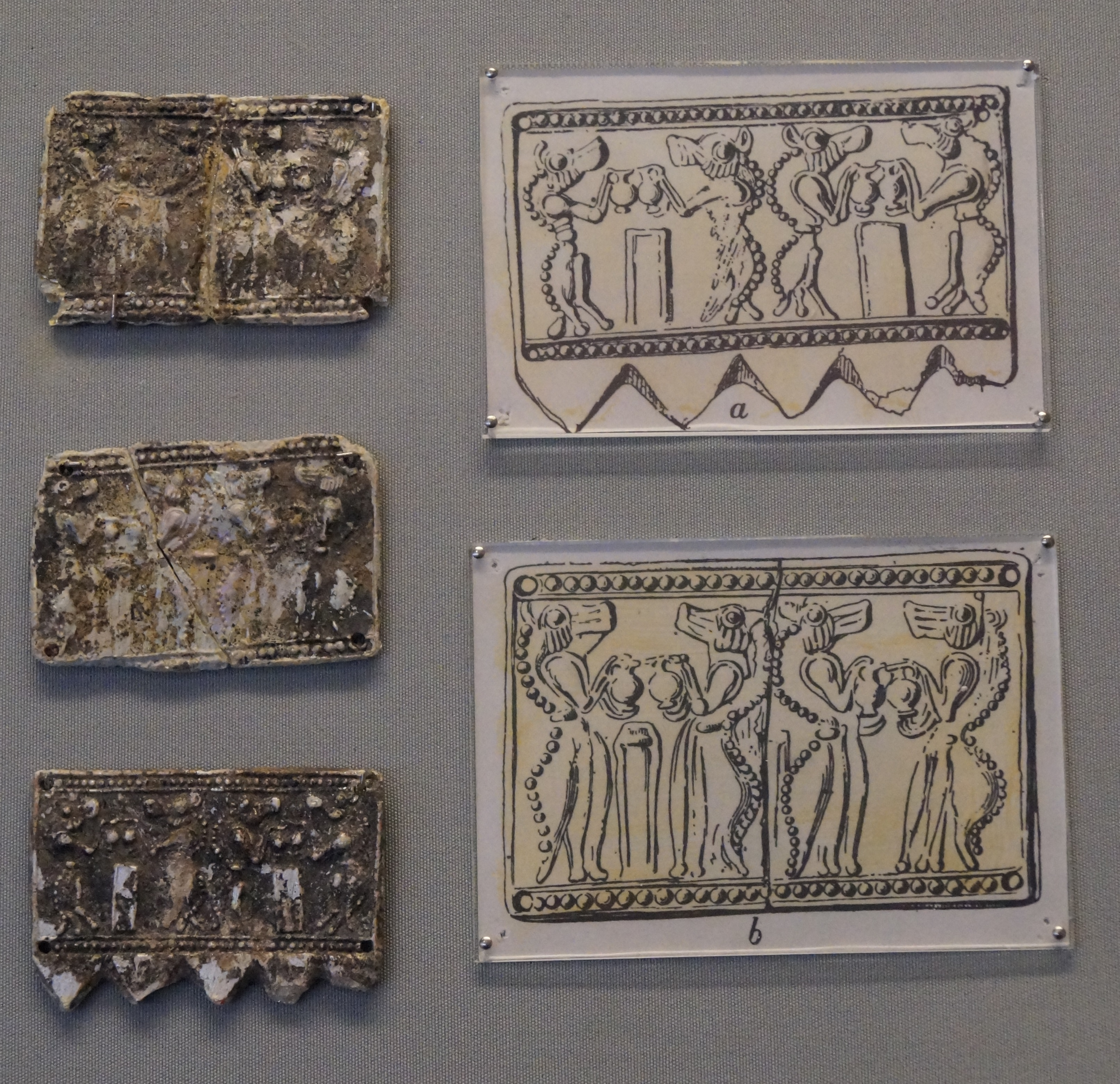 National Archaeological Museum of Athens: Findings from tomb of the genii at Mycenae. Glass plaques shows lion-headed daemons (genii) (NAMA 4535). The tomb was named after the theme of these plaques.